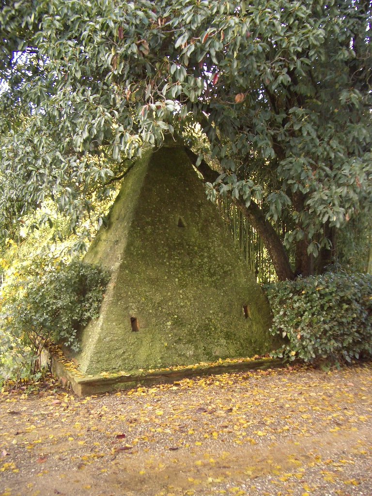 Detail of the garden of Villa Colle Allegro (Arezzo)